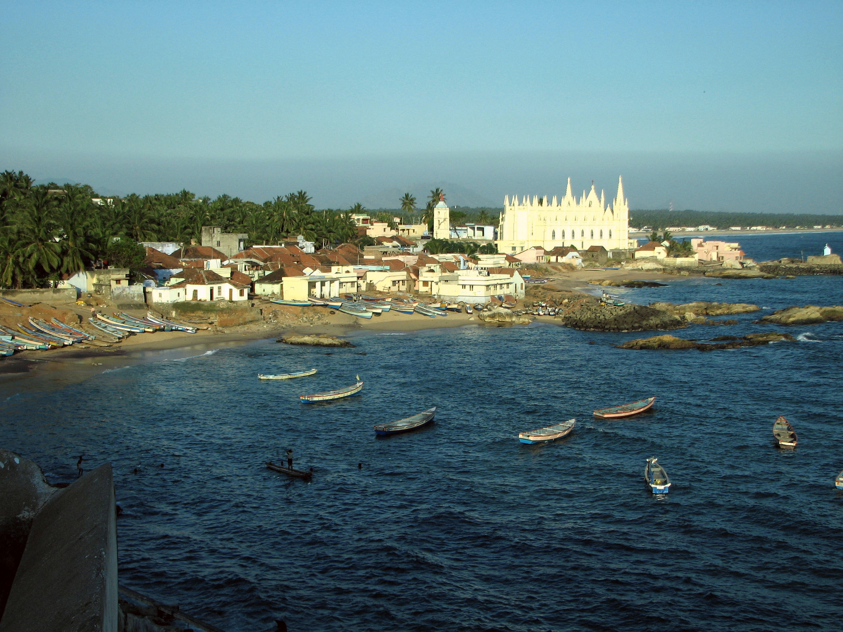 self-made photograph ; Author : Infocaster